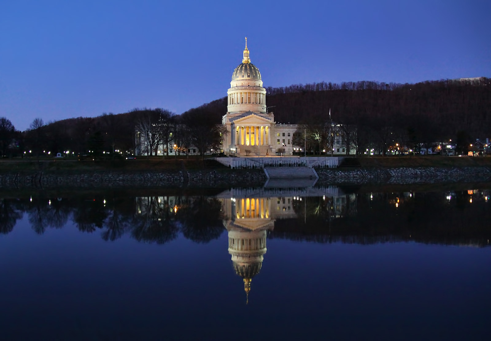 As I was traveling through Charleston, the capital of West Virgina, during blue hour (my favorite time of day) a couple of days after Thanksgiving, I happened upon this beautiful sight of the State Capitol Building reflected in the Kanawha river flowing by in total stillness, so I just had to stop and capture the scene. I didn't have a tripod handy, so this is not a long-exposure nightshot, just a regular hand-held shot accomplished by bumping up the ISO as much as I dared to get correct exposure at acceptable shutter speed (ended up being 1/40 sec) and doing my best to keep the camera steady.